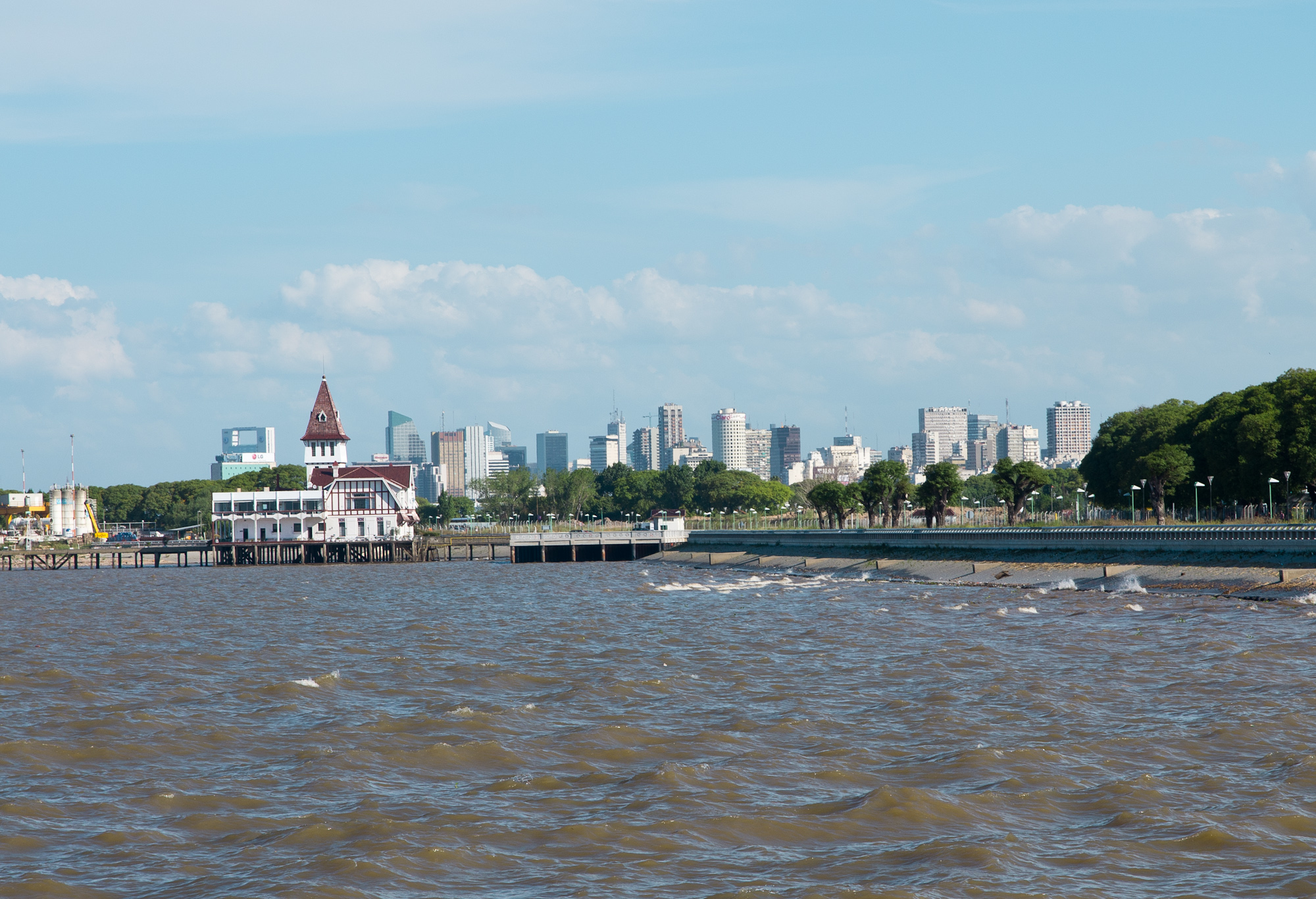 View of the Fishermen's Club and downtown Buenos Aires from the Hidroavión Buenos Aires pier, along Rafael Obligado Avenue.